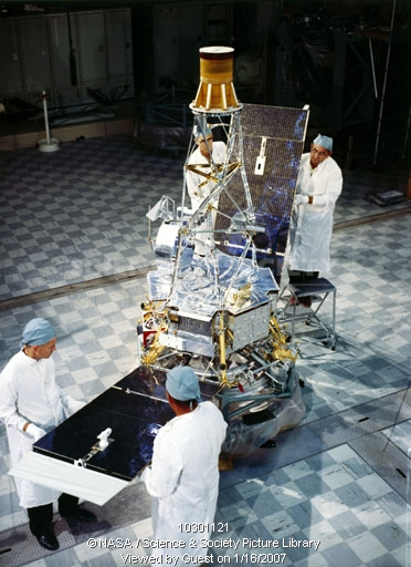 Technicians in the A&E Hangar at Cape Canaveral, Florida, attach the solar panels that will collect the Sun's energy to power the Mariner 2 unmanned probe.